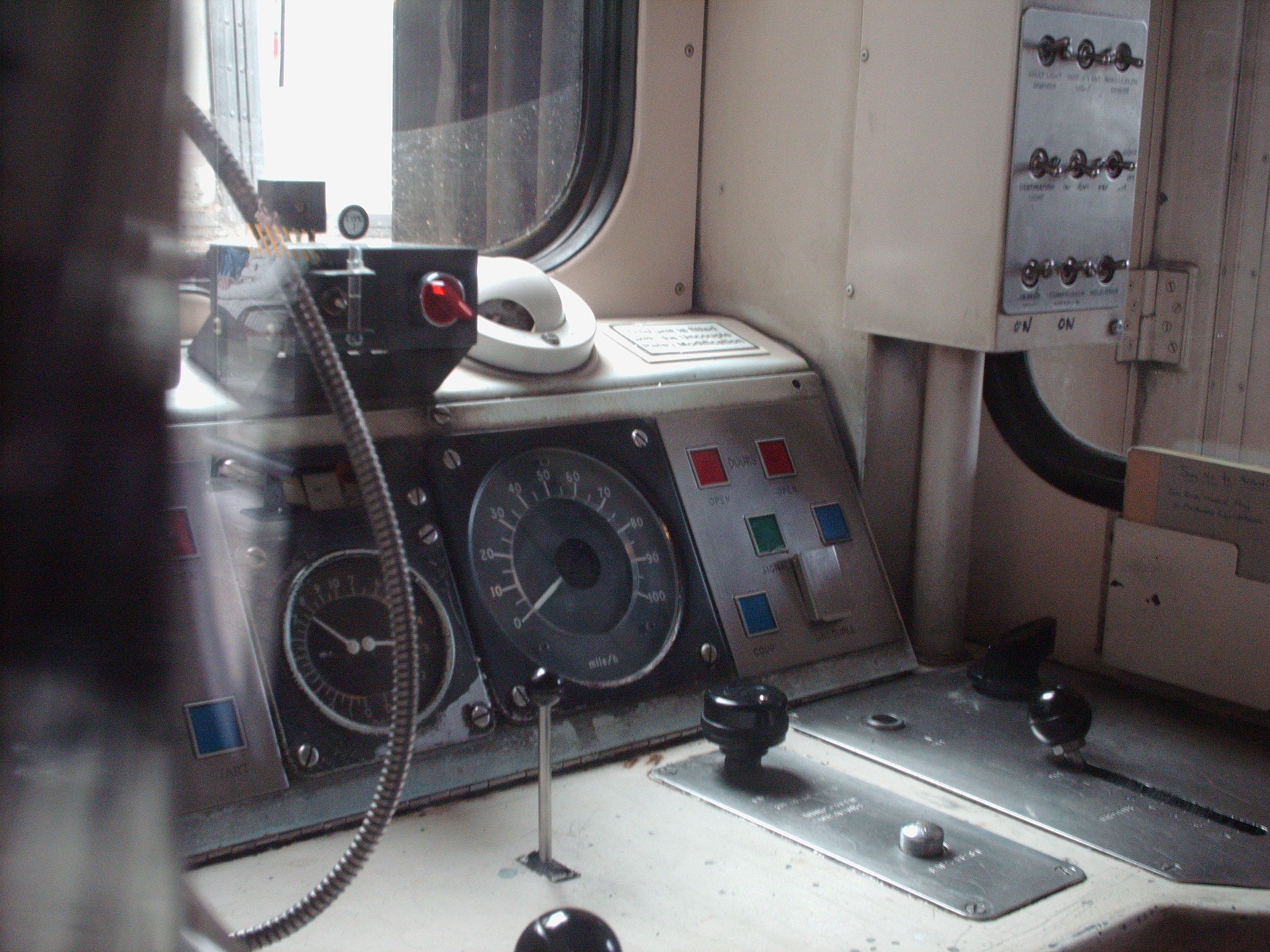 Drivers cab of DMU 144022.